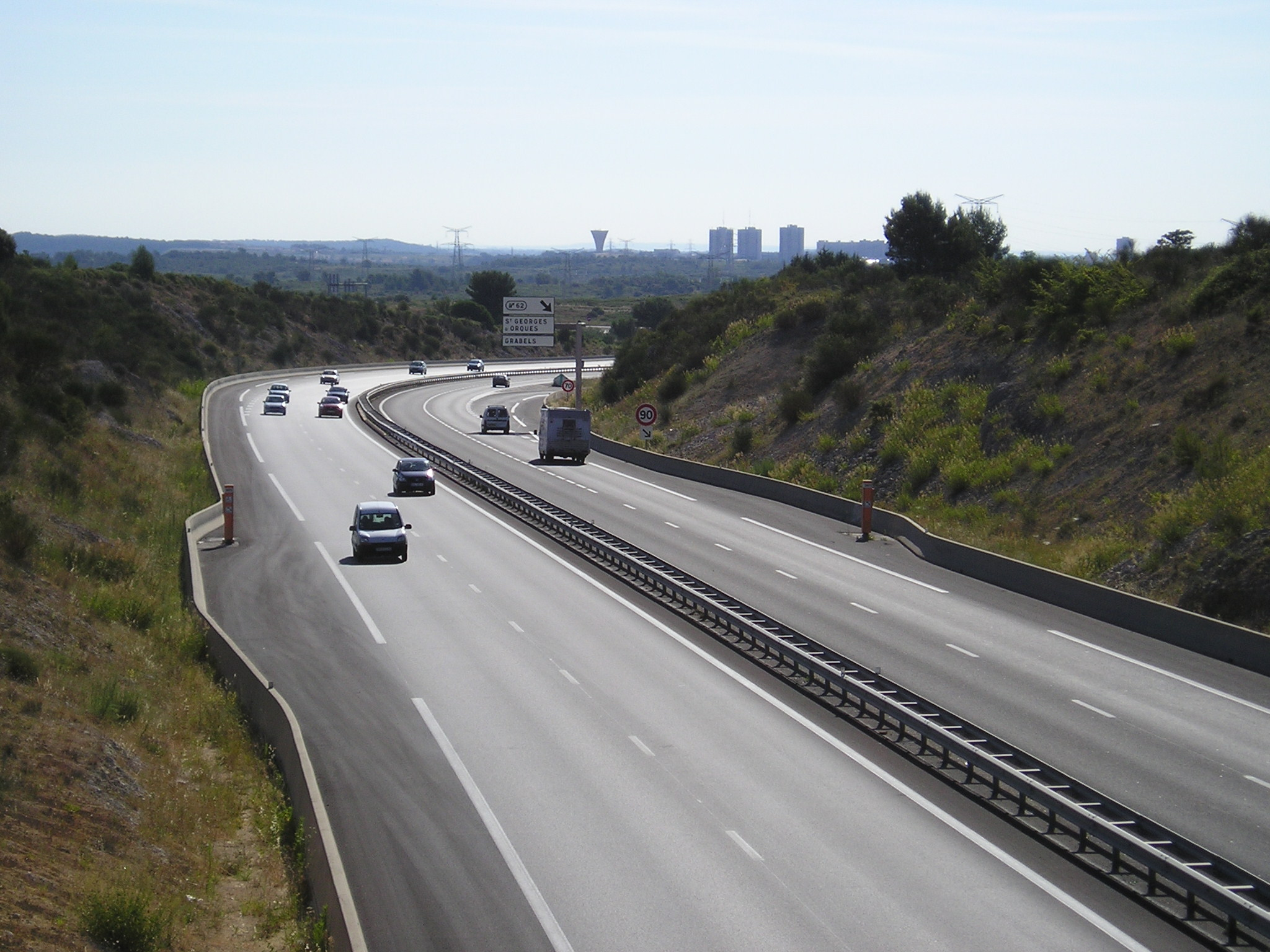 In Hérault, west of Montpellier, highway A750 viewed from the bridge on the D102 road next to Bel-Air and exit #62 (on Saint-Georges-d'Orques territory). In the background, the northern part of Montpellier area of La Paillade (water reservoir and the three towers of residential "Tritons" estate).